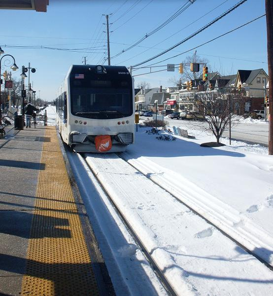 Picture of NJ Transit RiverLINE train arriving at Palmyra Station after a snow storm in February 2010